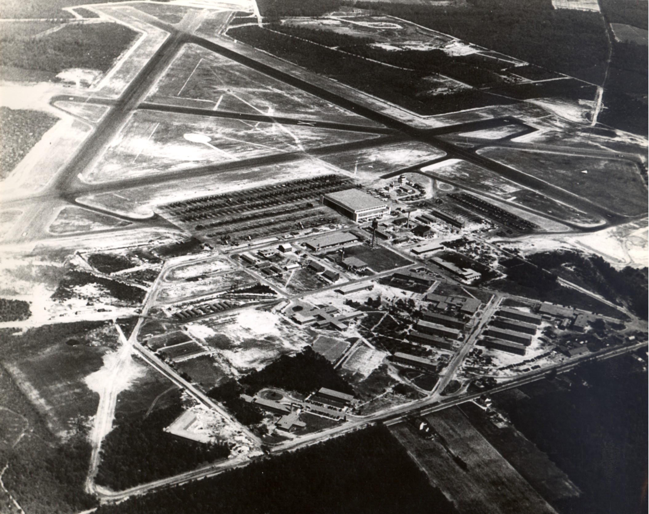 Aerial photograph of the U.S. Navy Naval Air Station Wildwood, New Jersey (USA), probably taken during the Second World War.